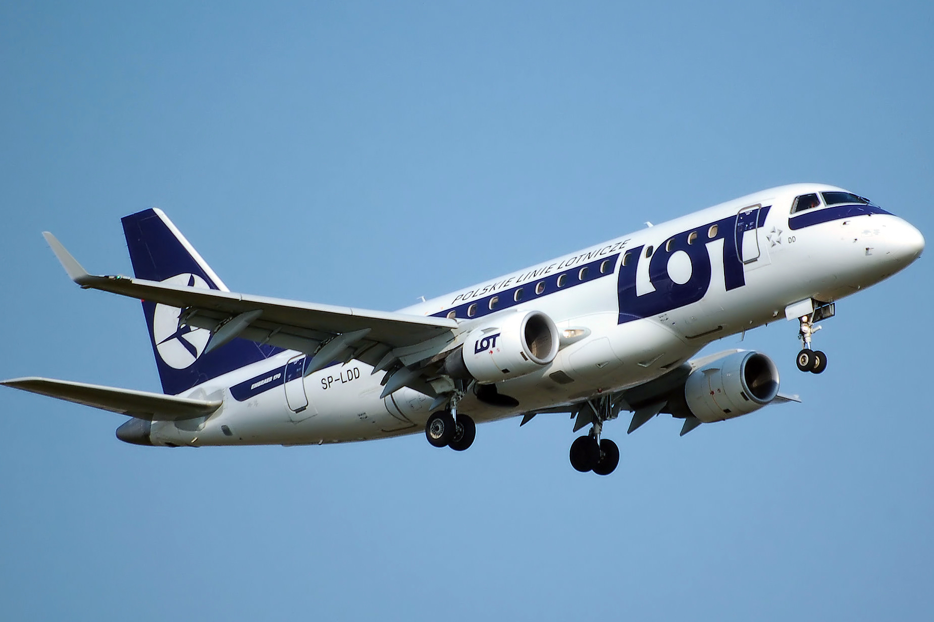 LOT Polish Airlines Embraer E-170-100ST (SP-LDD) lands at London Heathrow Airport.